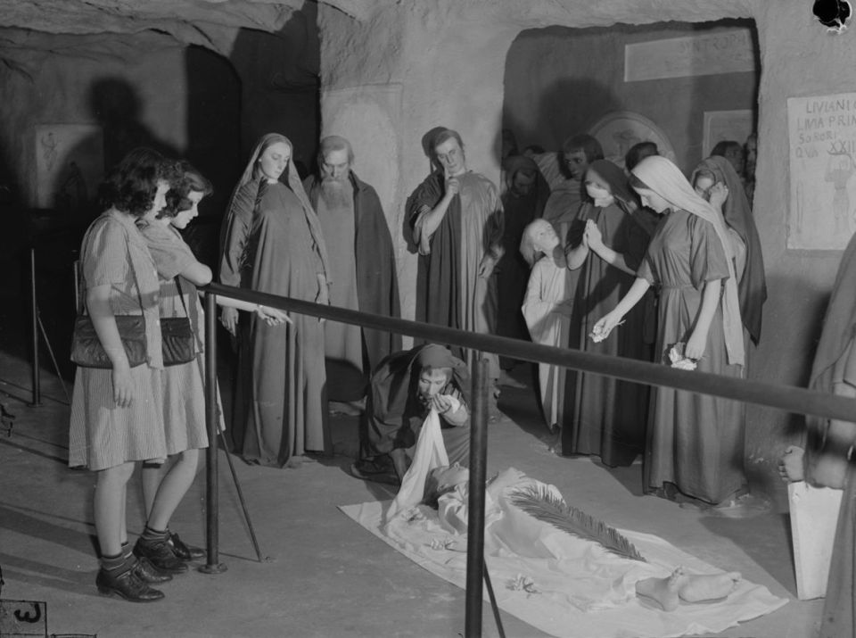 The twins Hélène et Jacqueline Saint-Jean visit the Canadian Historical Museum, waxworks museum located on Queen Mary Road in Montreal. They look a representation of a scene from the Bible.